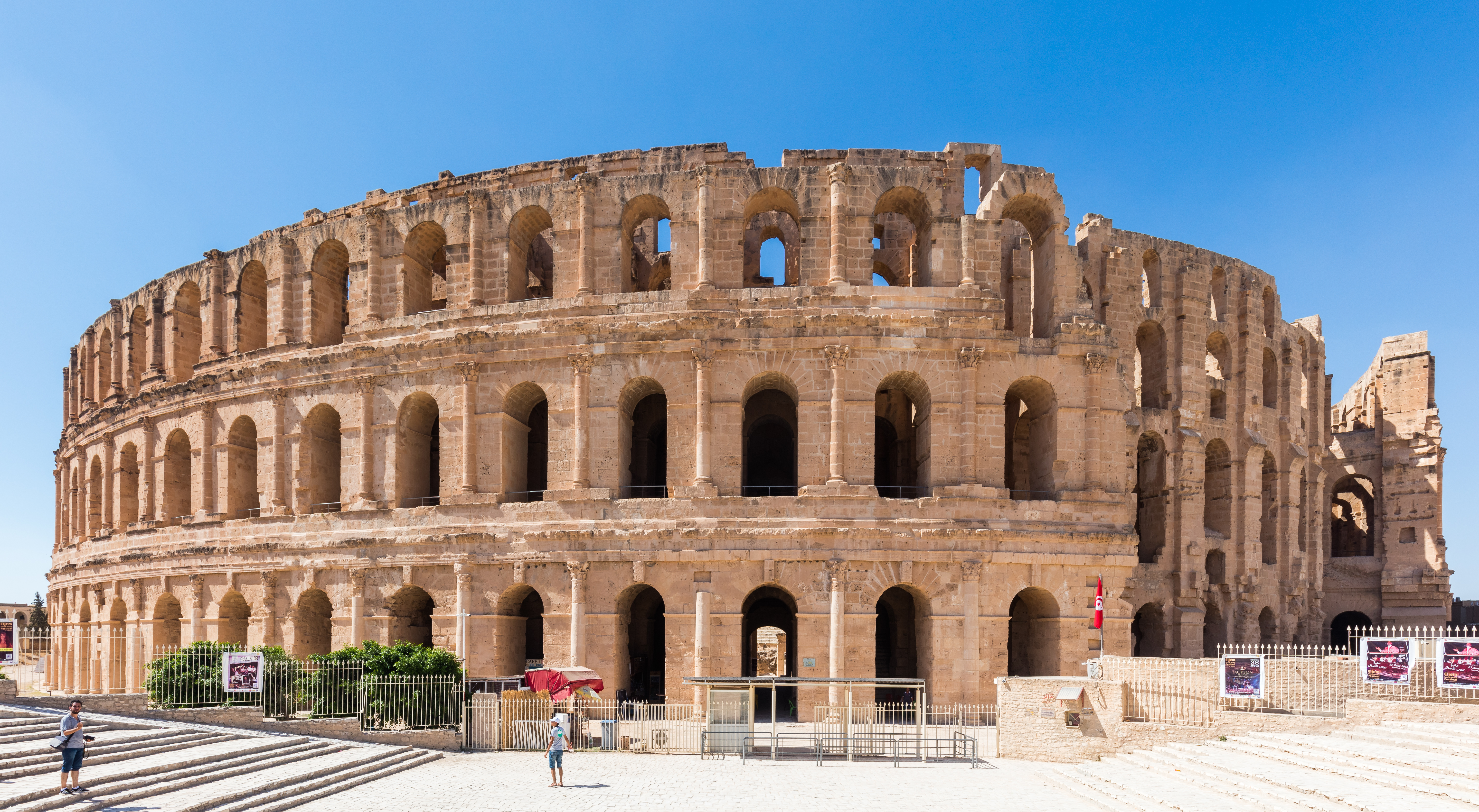 Amphitheatre of El Jem, Tunisia